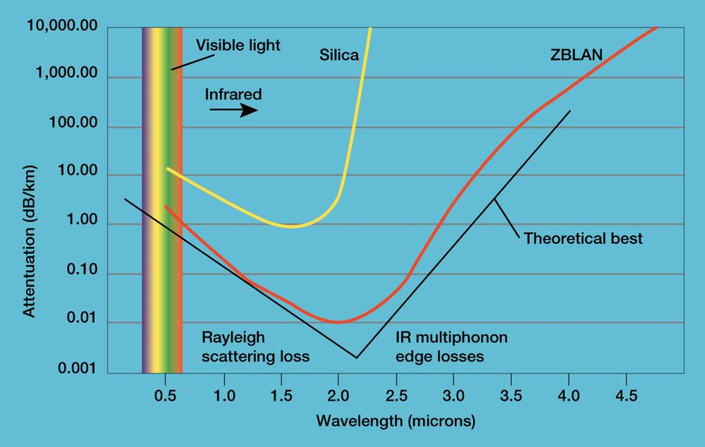 light attenuation by ZBLAN and silica glasses